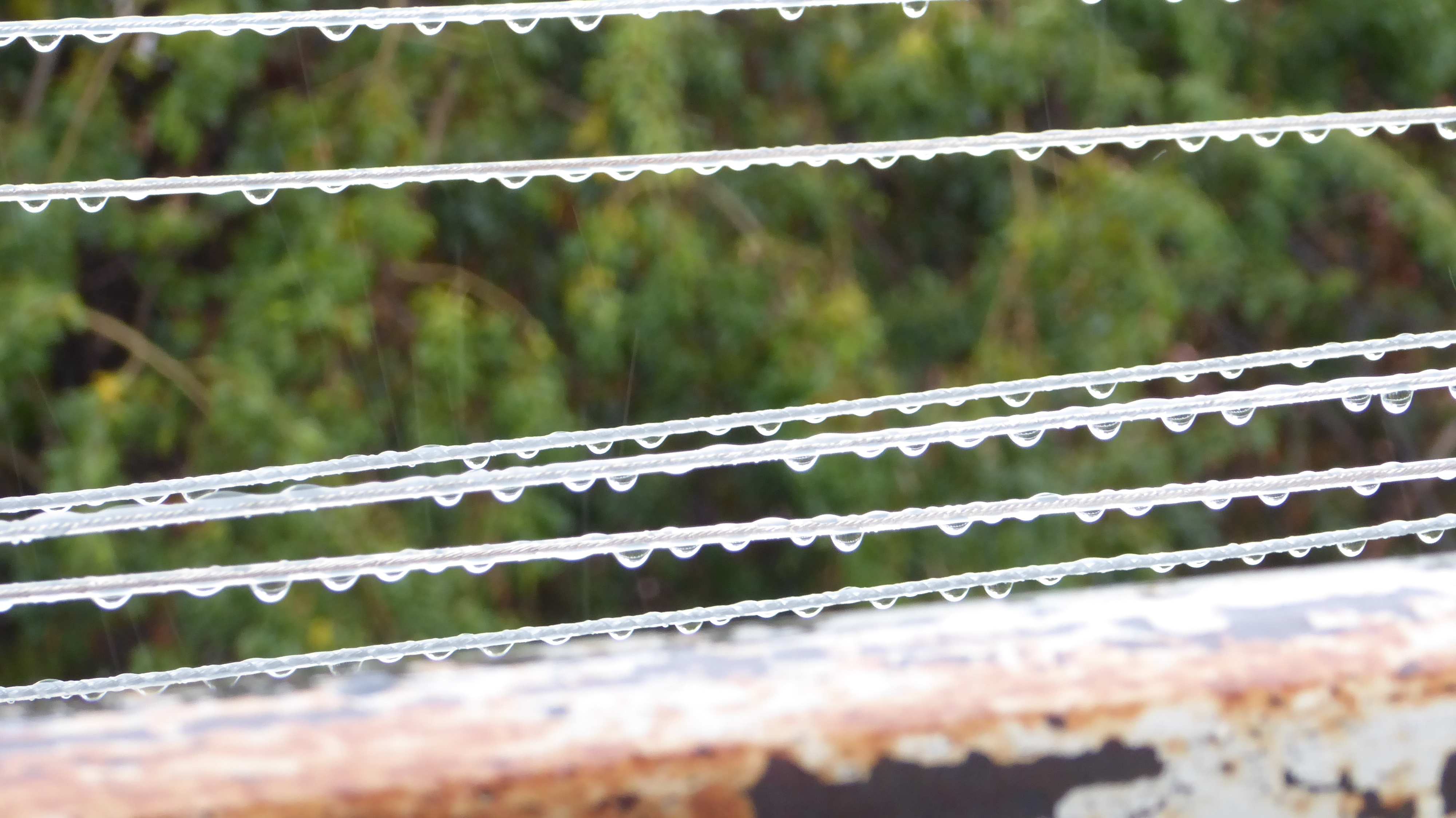 Wet clothesline in winter, Israel